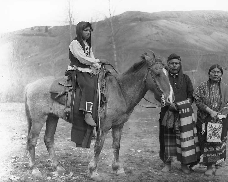 Title: Paloos/Colville family pose with pony, Colville Indian Reservation, Washington, ca. 1900-1910. Photographer: Latham, Edward H. Studio Location: United States--Washington (State)--Nespelem Date: ca. 1905 Notes: A boy dressed in vest over shirt, necklaces, leggings and moccasins, sits on a saddled horse holding the reins. A man and woman stand next to them. The man wears a shirt, leggings, breechcloth, and moccasins. He holds a blanket over his arm. The woman's hair is in braids and she wears dress over a long sleeved blouse, necklace, bracelet, earrings, and moccasins. A fringed blanket is draped around her, and she holds a cornhusk bag. Note from unidentified source: Boy on a pony, with his mother and father; boy may be A-kis-kis, the father Joe A-kis-kis, and his wife, a Palouse woman, Hal-a-mis; Colville Reservation. Subjects: Group portraits--Washington (State) Colville Indians Paloos Indians (Palouse) Horses--Washington (State) Blankets Bags Location Depicted: United States--Washington (State)--Colville Indian Reservation Negative Number: NA1009 Repository: University of Washington Libraries. Special Collections Division Restrictions: University of Washington Digital Collections